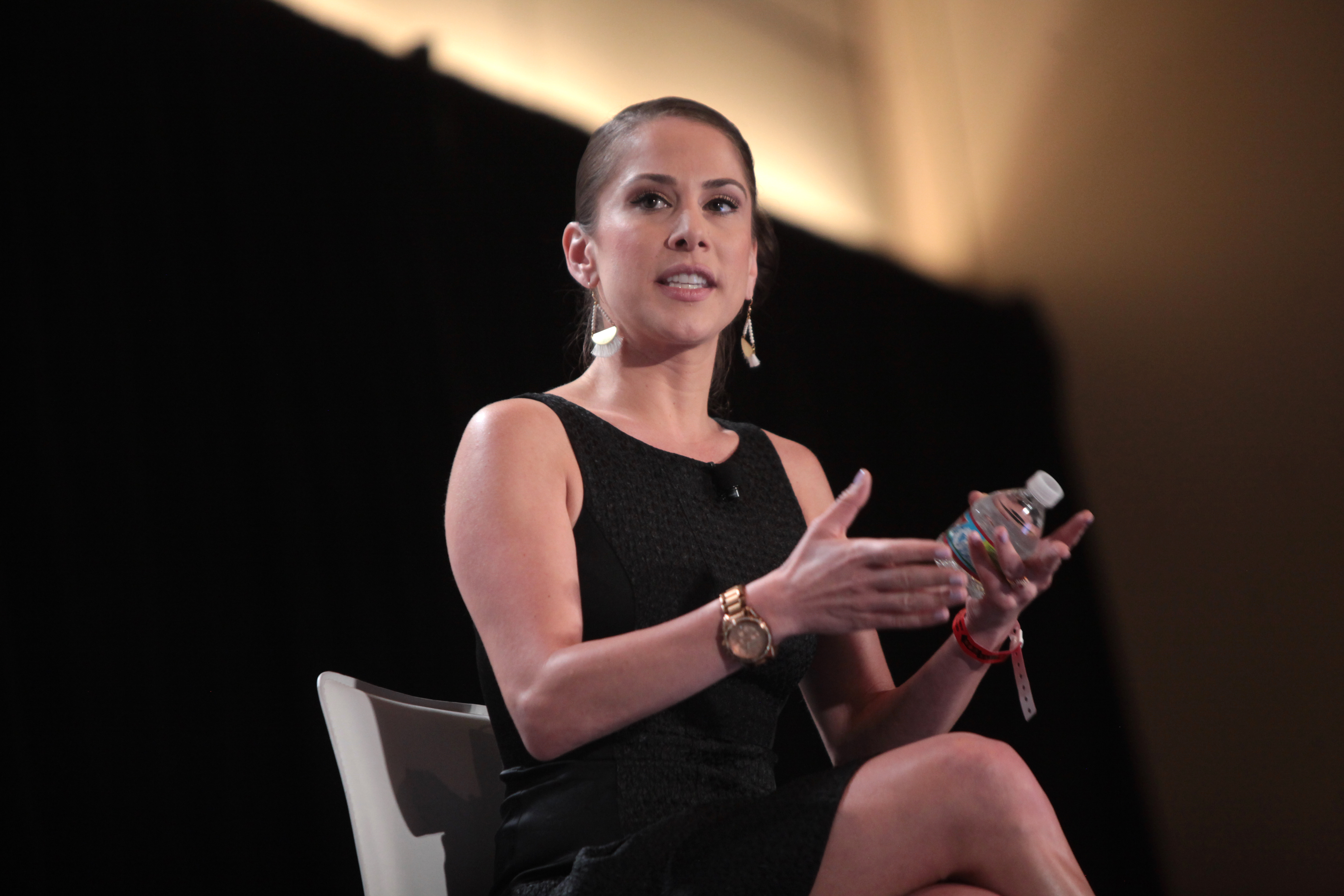 Ana Kasparian speaking at the 2016 Politicon at the Pasadena Convention Center in Pasadena, California.